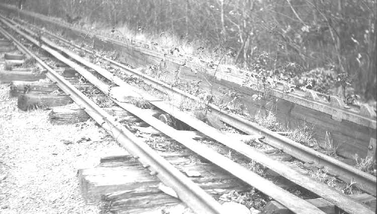 Close up of the Mauch Chunk and Summit Hill Switchback Railroad's unique track.